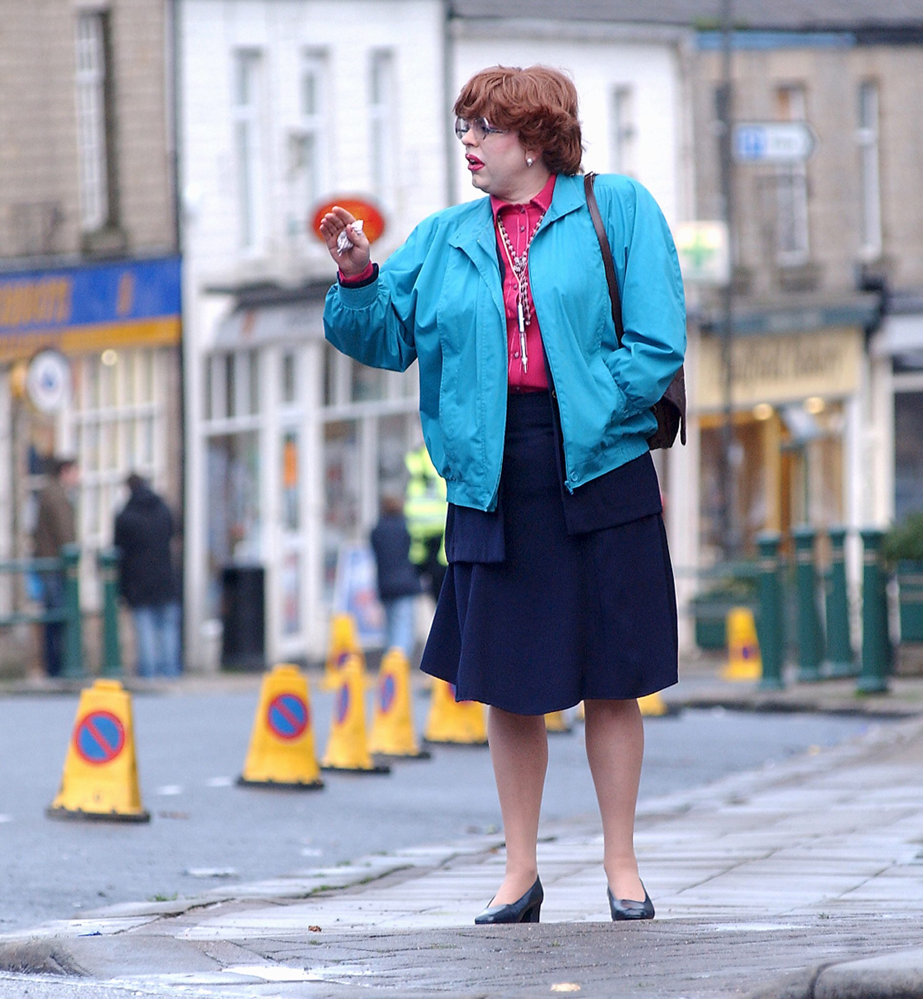 Steve Pemberton acting as Pauline during the filming of The League of Gentlemen's Apocalypse on Station Road in Hadfield, Derbyshire, England in 2004